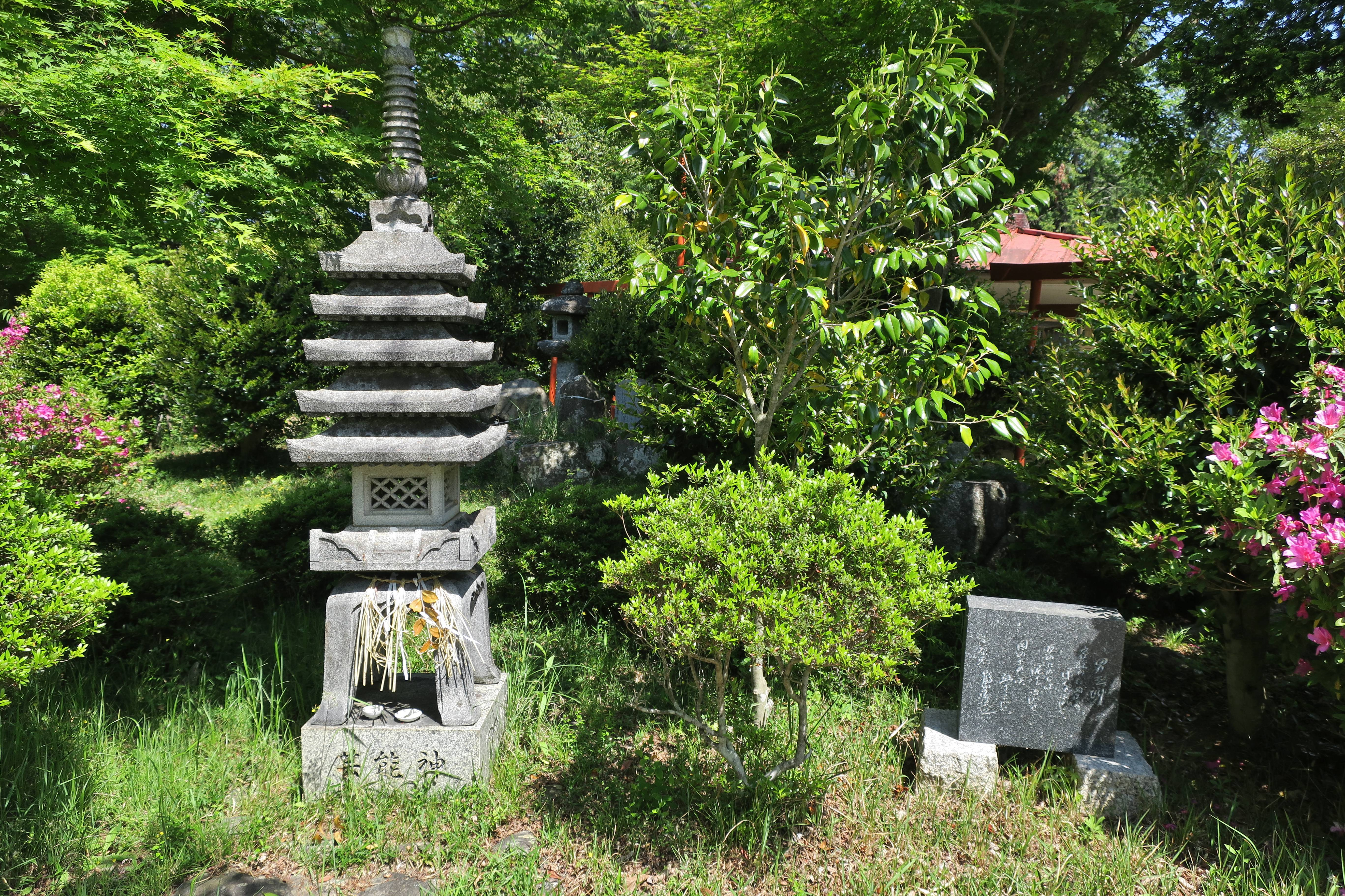 Shiawasenomiya (Taki, Mie).